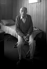 Social Anthropology